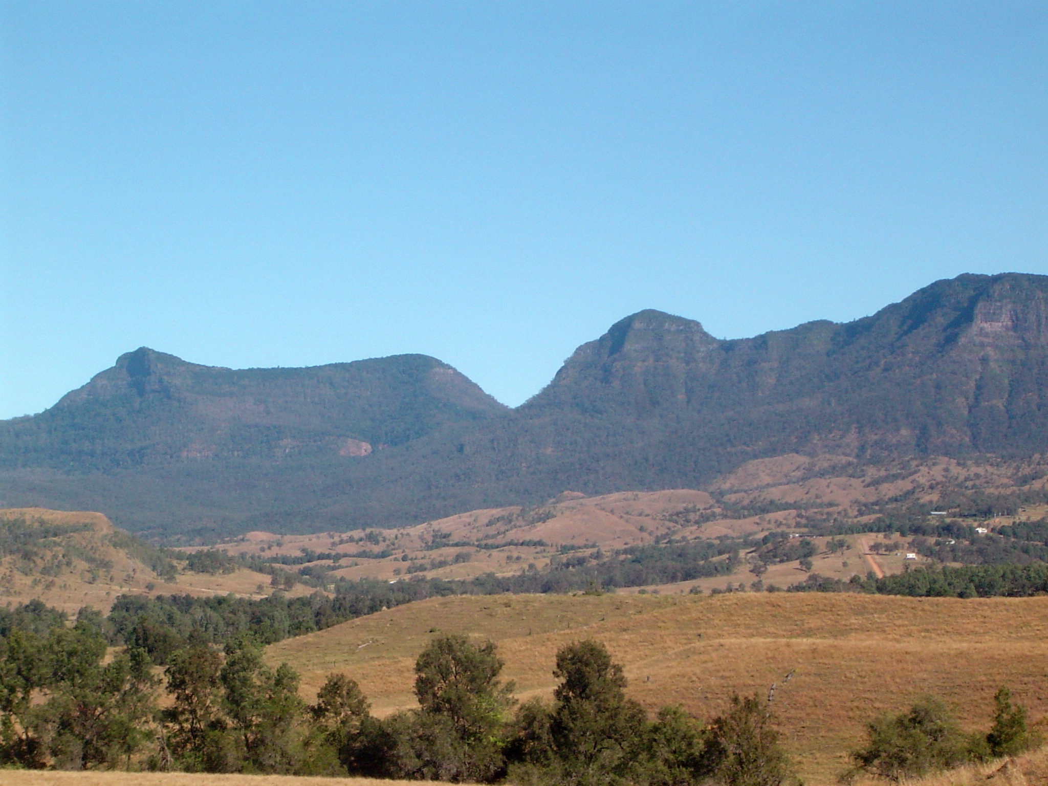 Cunninghams Gap viewed from upper Fassifern Valley, South East Queensland